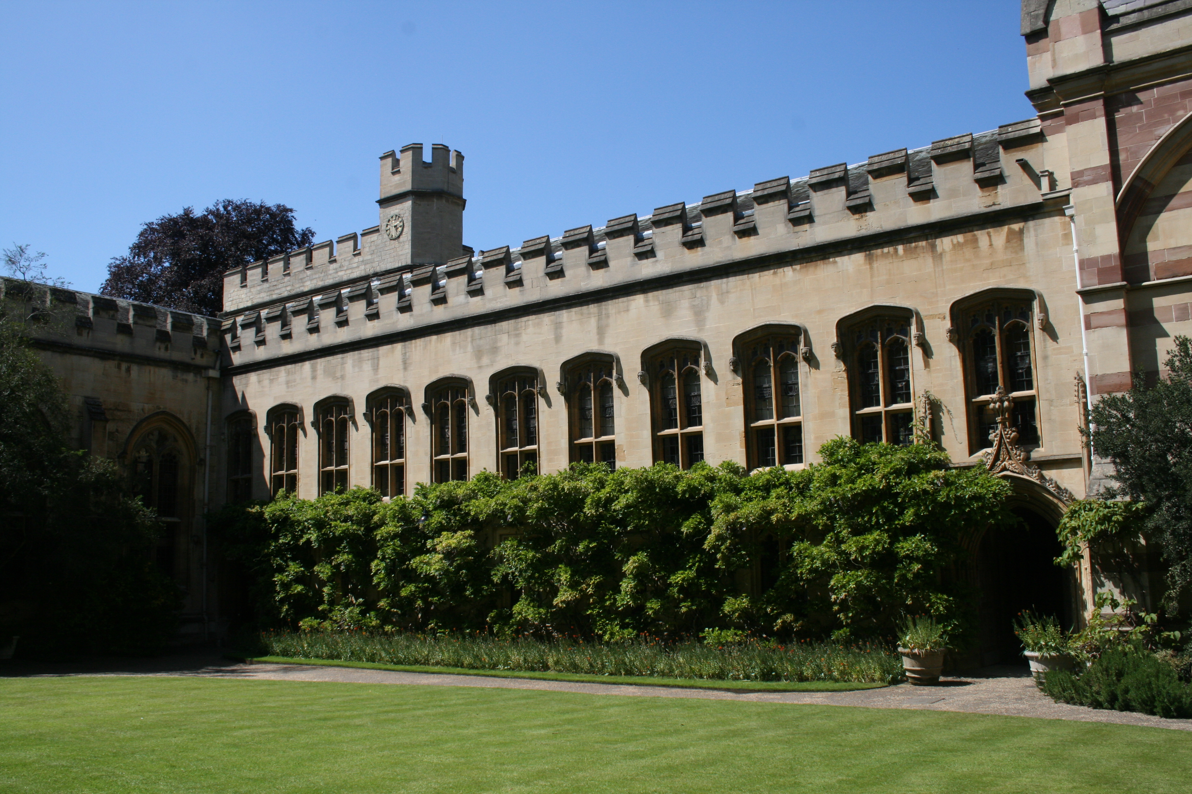 Photograph of the front quad of Balliol College, Oxford, United Kingdom.